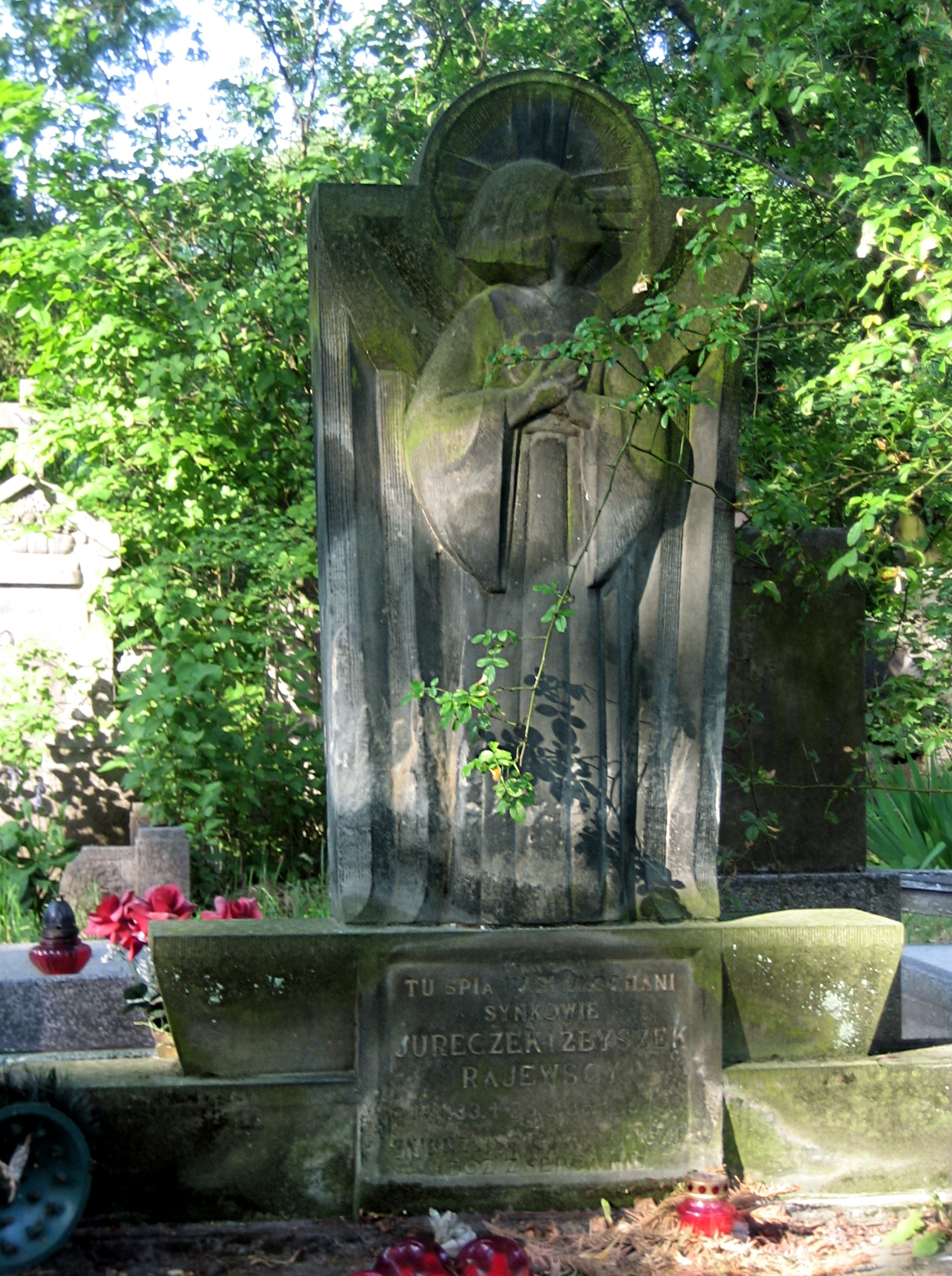 The tombstone of Jureczek and Zybyszek Rajewski at the Jeżyce Cemetery in Poznań